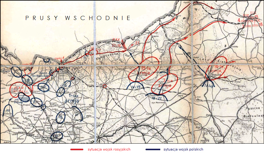 Władysław Sikorski, On the Vistula and Wkra. A Study from the Polish-Russian War of 1920. Sketch No. 8 (fragment):The general situation at dawn on August 22, 1920.